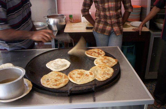 Sourced from LensaMalaysia. "Except where otherwise noted, this site is licensed under a Creative Commons Attribution 2.5 License."